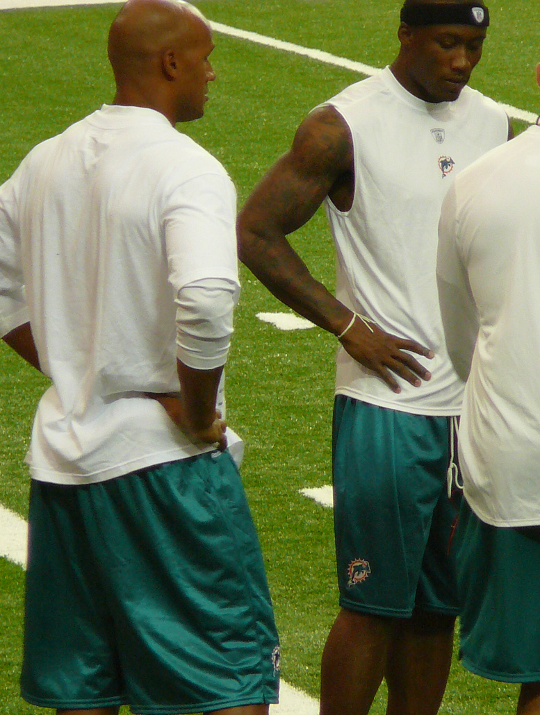 If used somewhere other than Wikipedia, Nelson, by name.